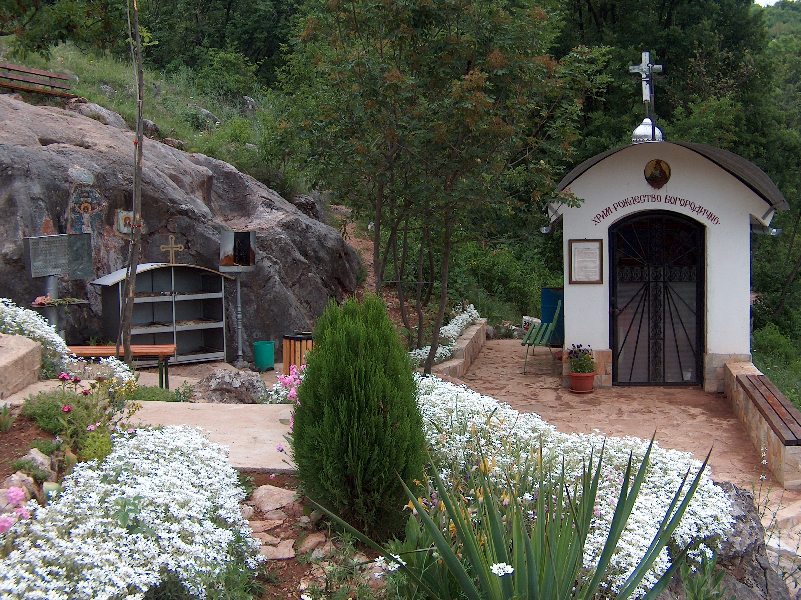 Stara Zagora mineral spa-bog.stypka 04